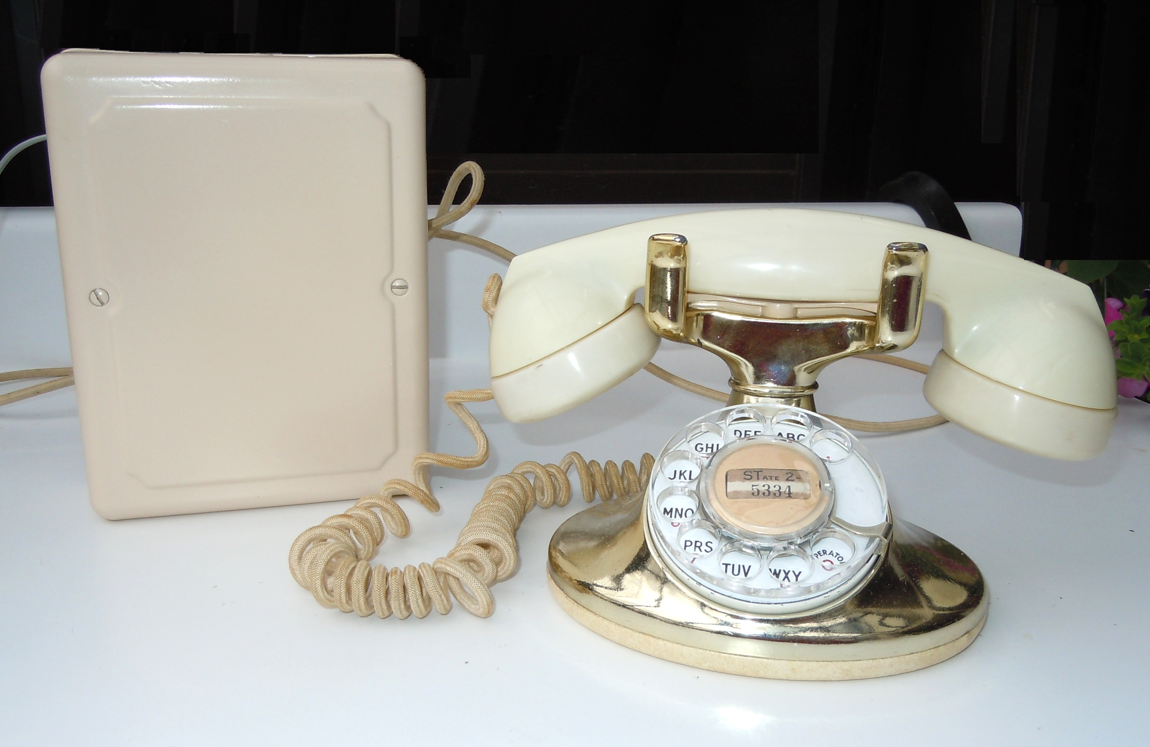 This is a Western Electric type 202 Imperial telephone as typically issued in 1955 by the Bell System, with its associated 684A ringer subset box.